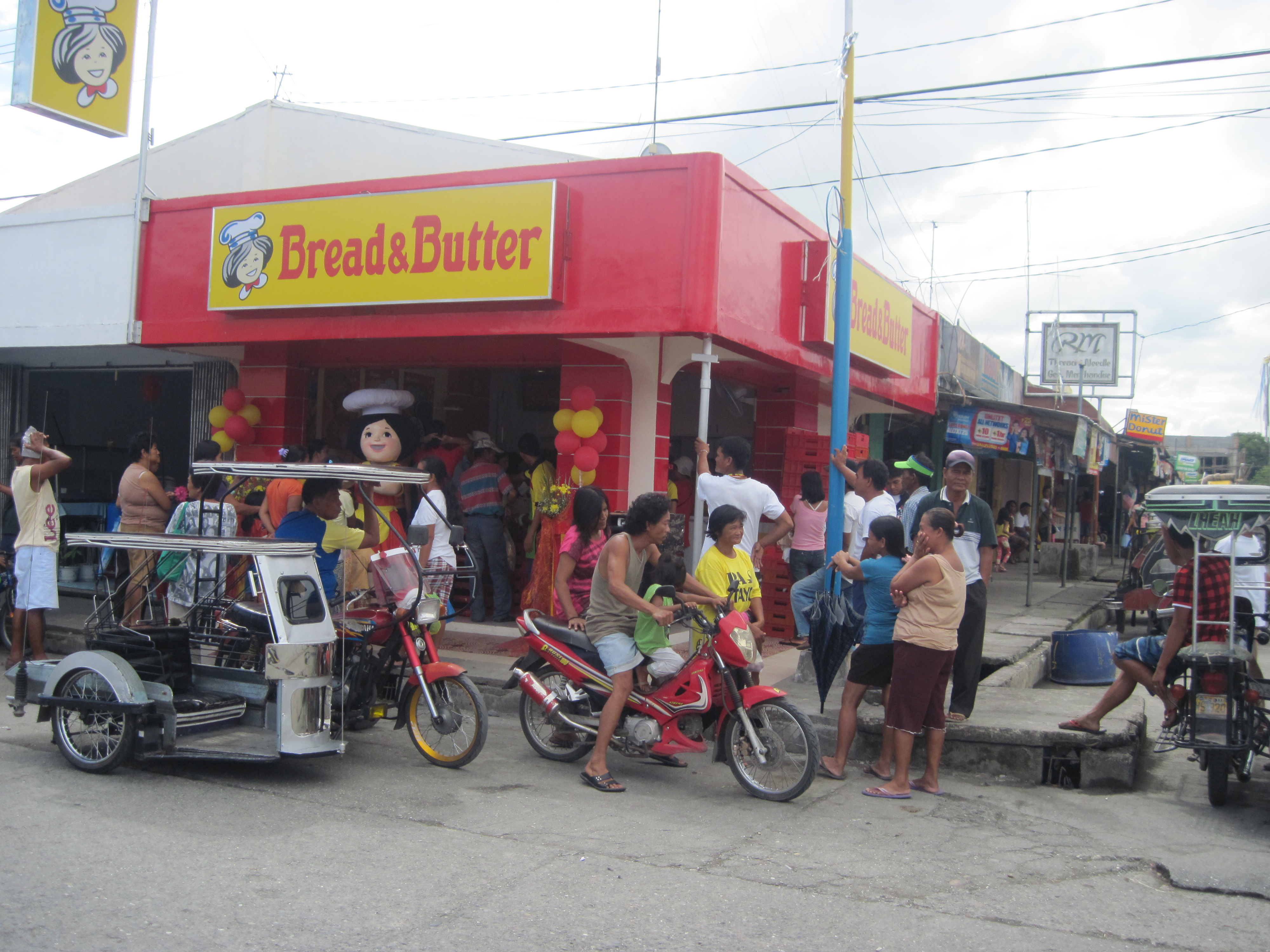 Bread & Butter - Victoria,Mindoro